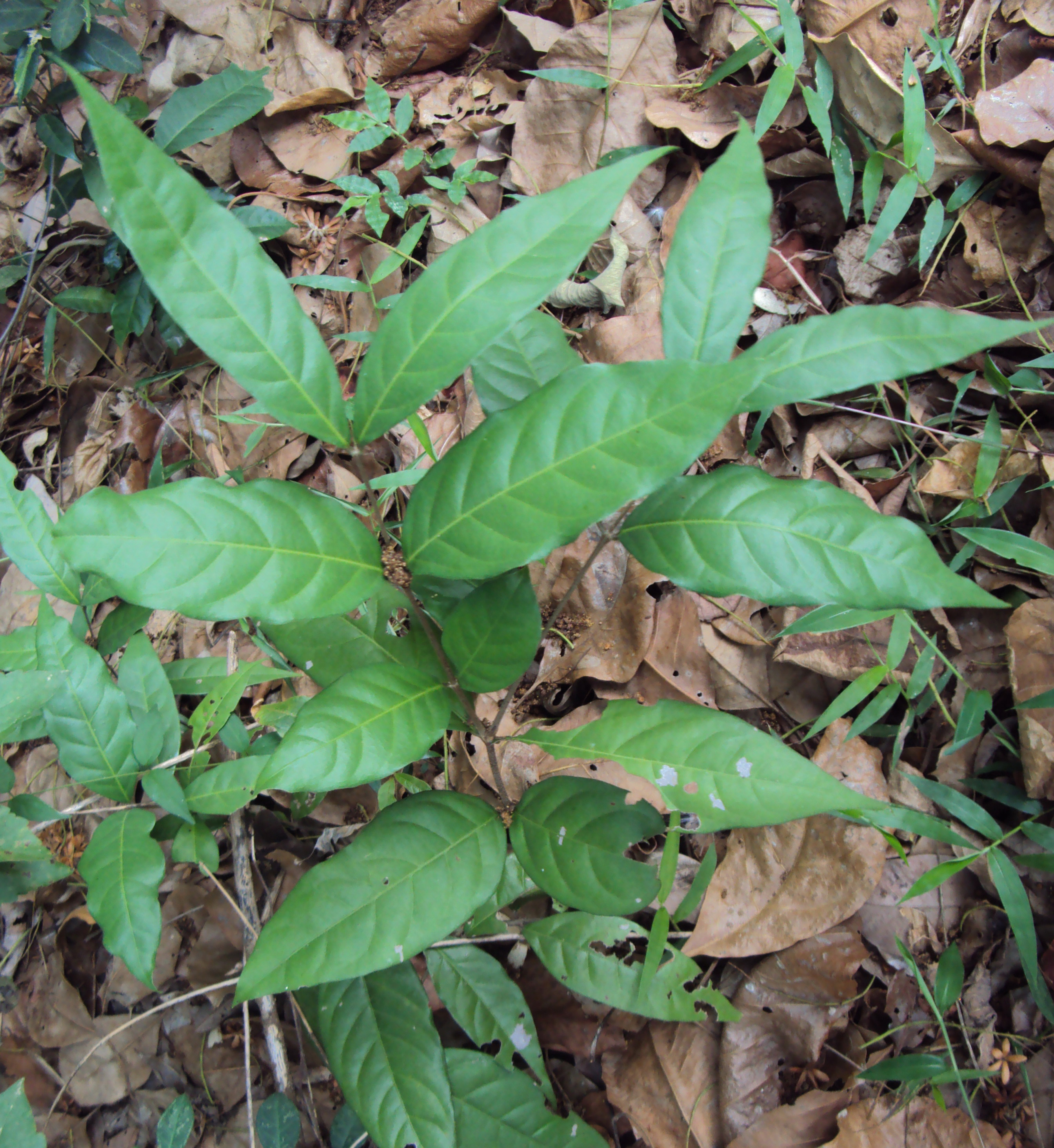 Hiptage benghalensis